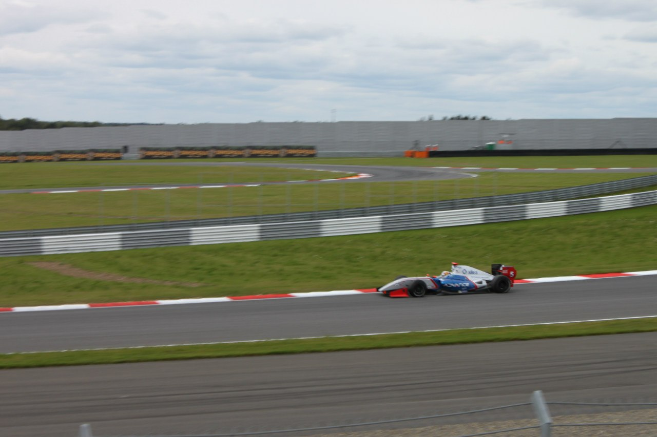 Fantin during Race 1 of the 2014 Formula Renault 3.5 Series season at Moscow Raceway.